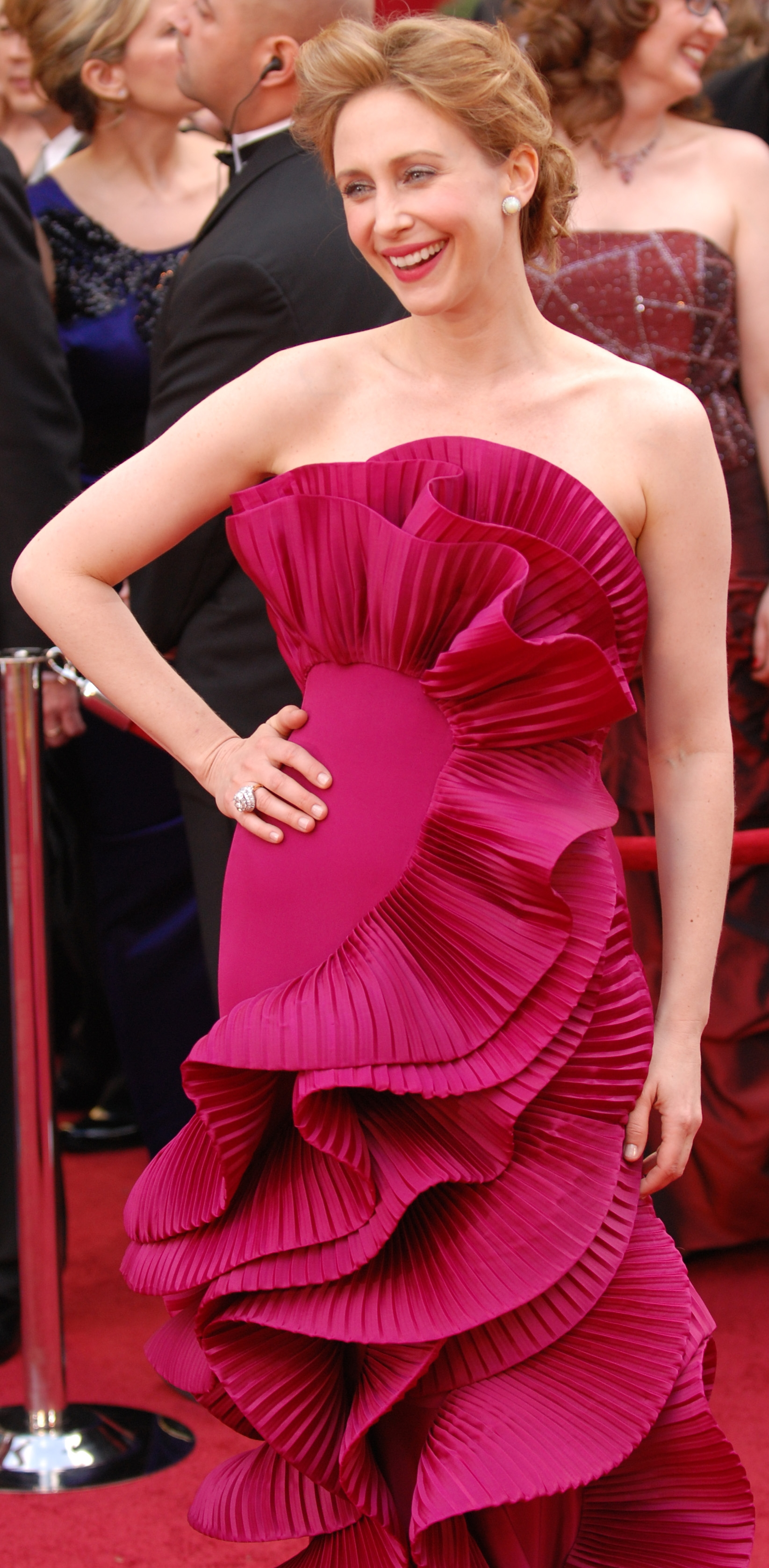 Vera Farmiga is all smiles on the red carpet at the 82nd Academy Awards, March 7, in Hollywood, Calif. She was nominated for supporting actress for "Up in the Air."